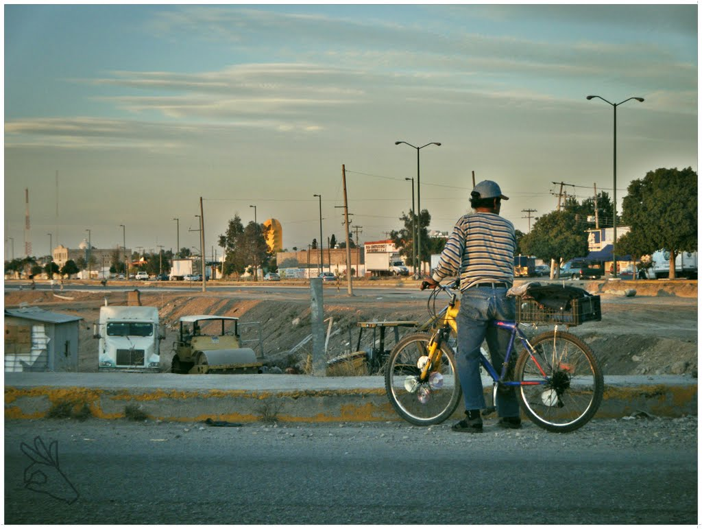 hombre a las orillas del nazas